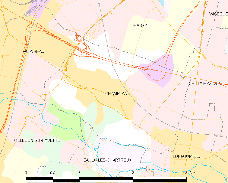 Map of French municipality Champlan